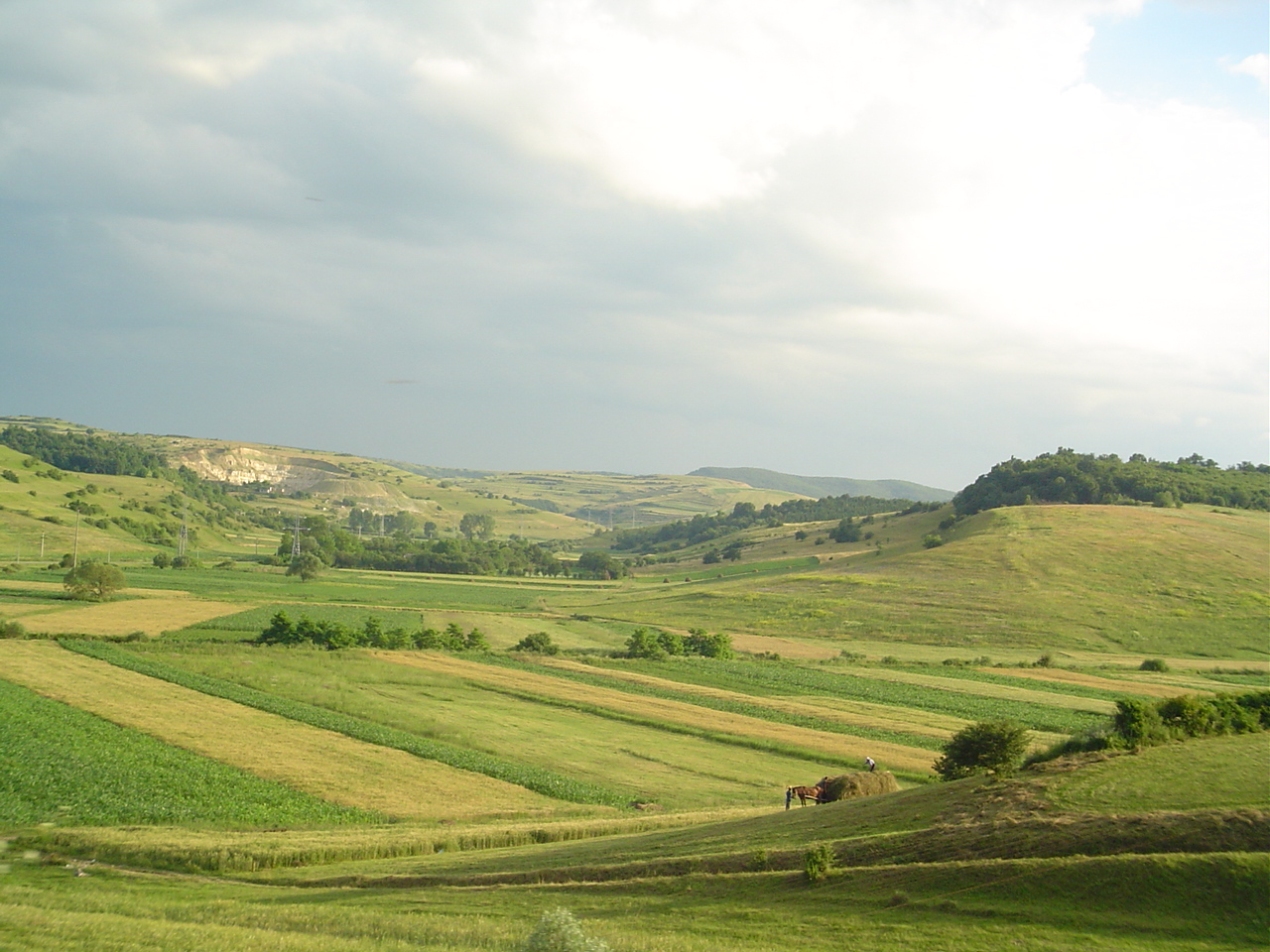 Landscape in Transylvania